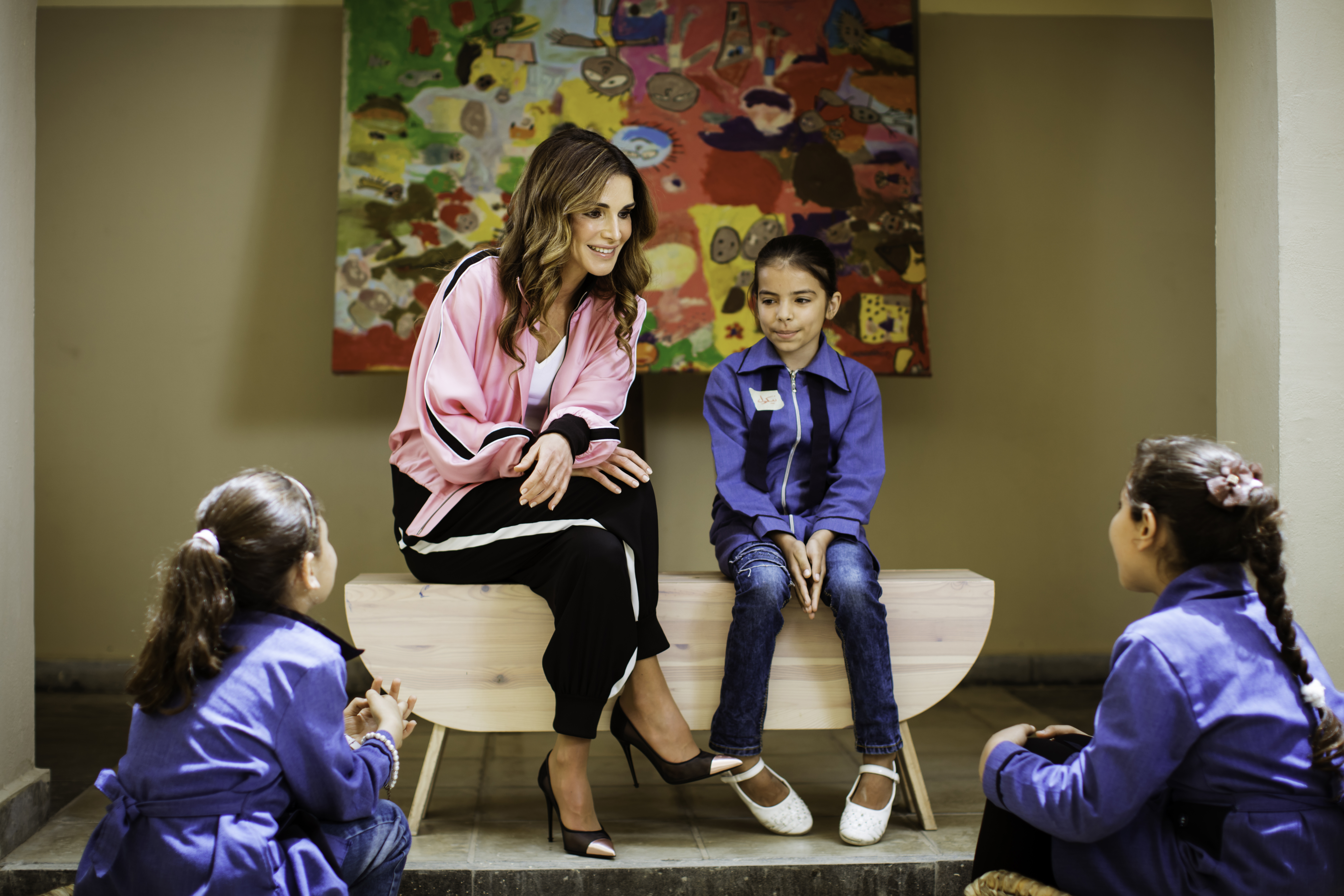 HRH Queen Rania of Jordan